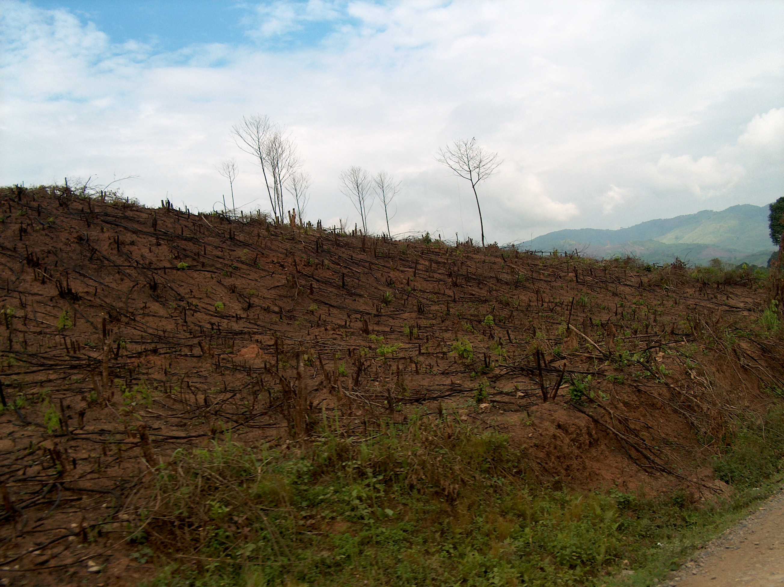 Burnd forest